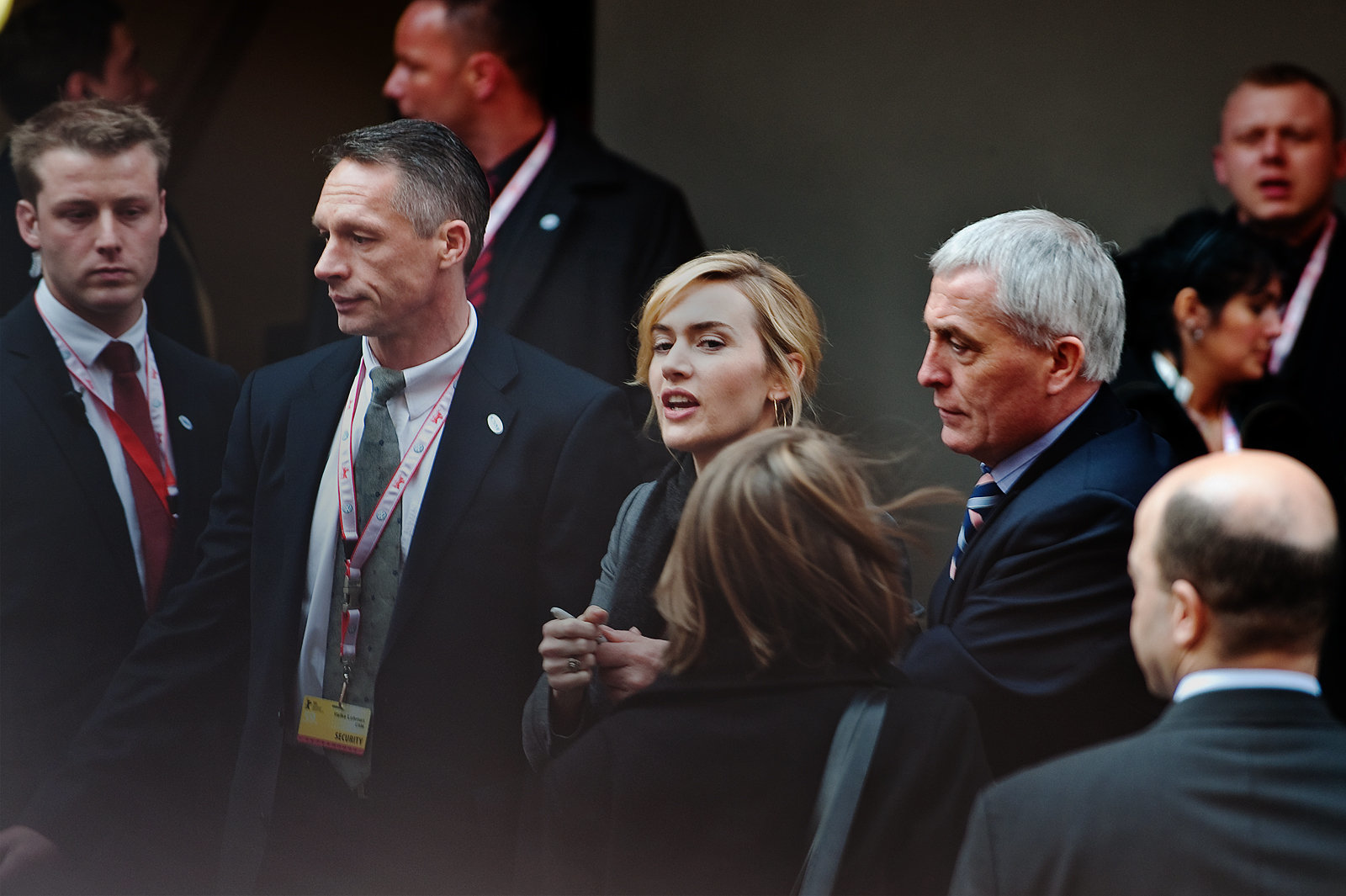 Kate Winslet leaving the press conference for "The Reader" at the 59th Berlin International Film Festival.